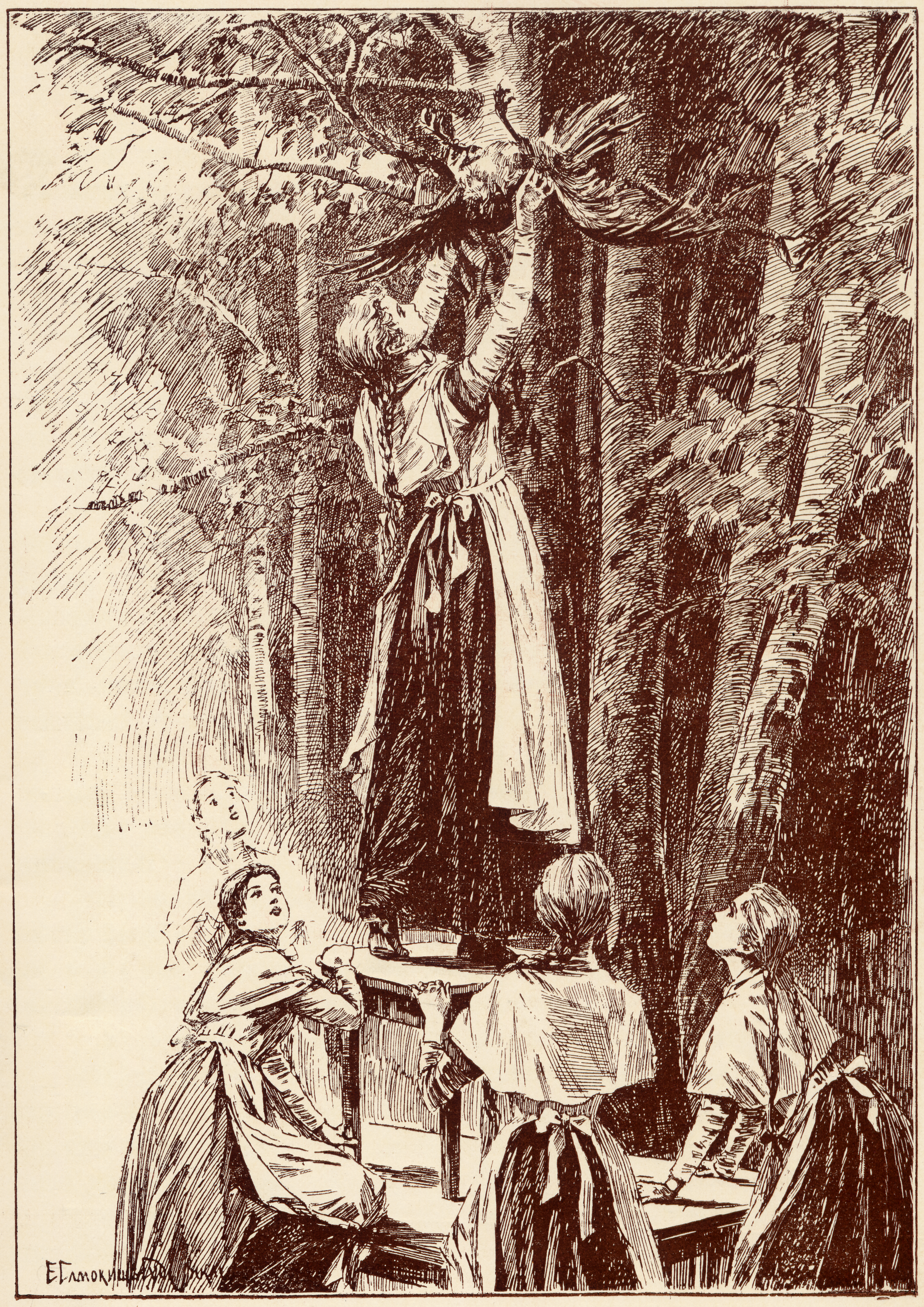 Illustration to chapter V. Rescue of crow